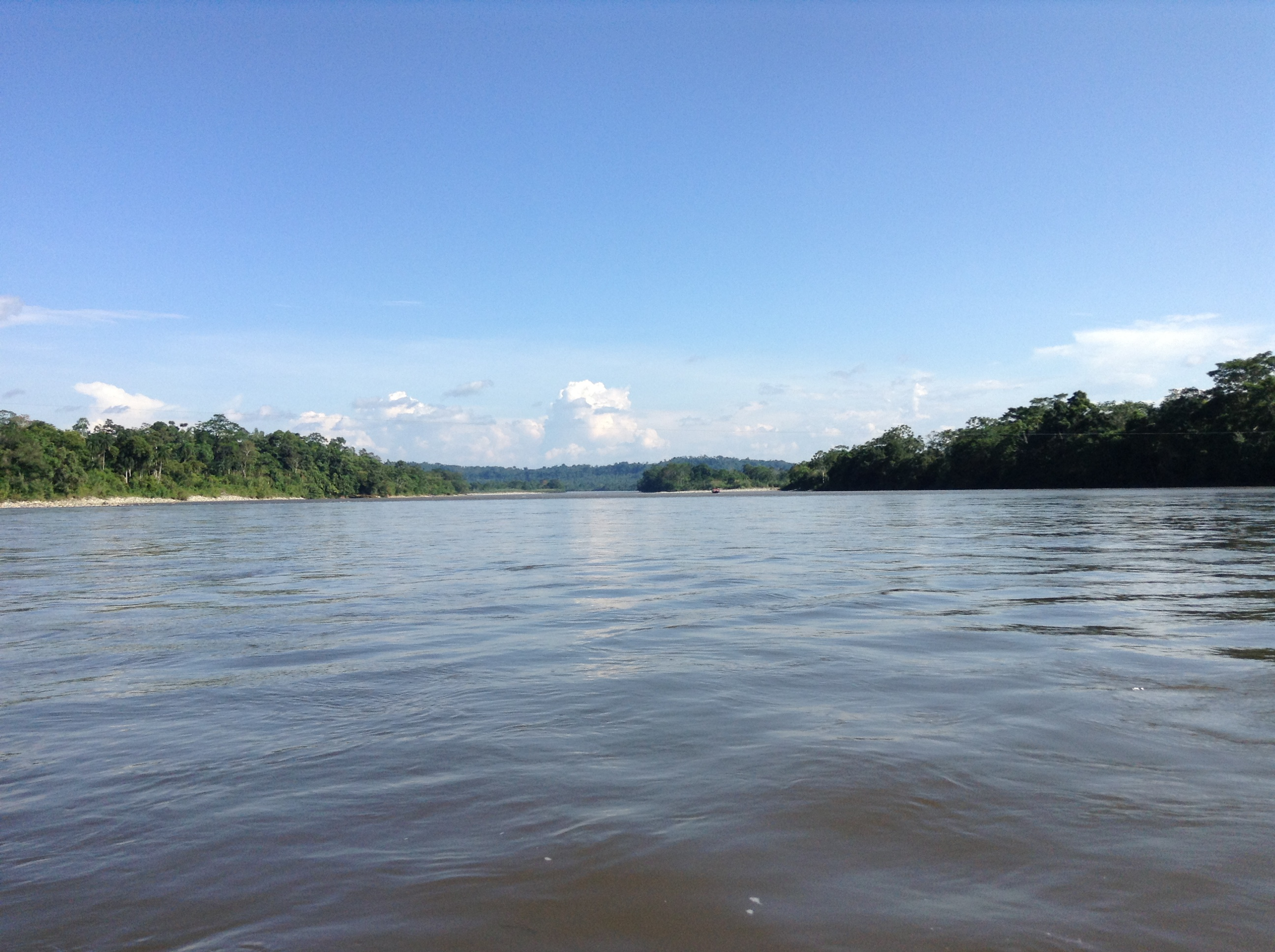 Napo River in Ecuador, in 2013